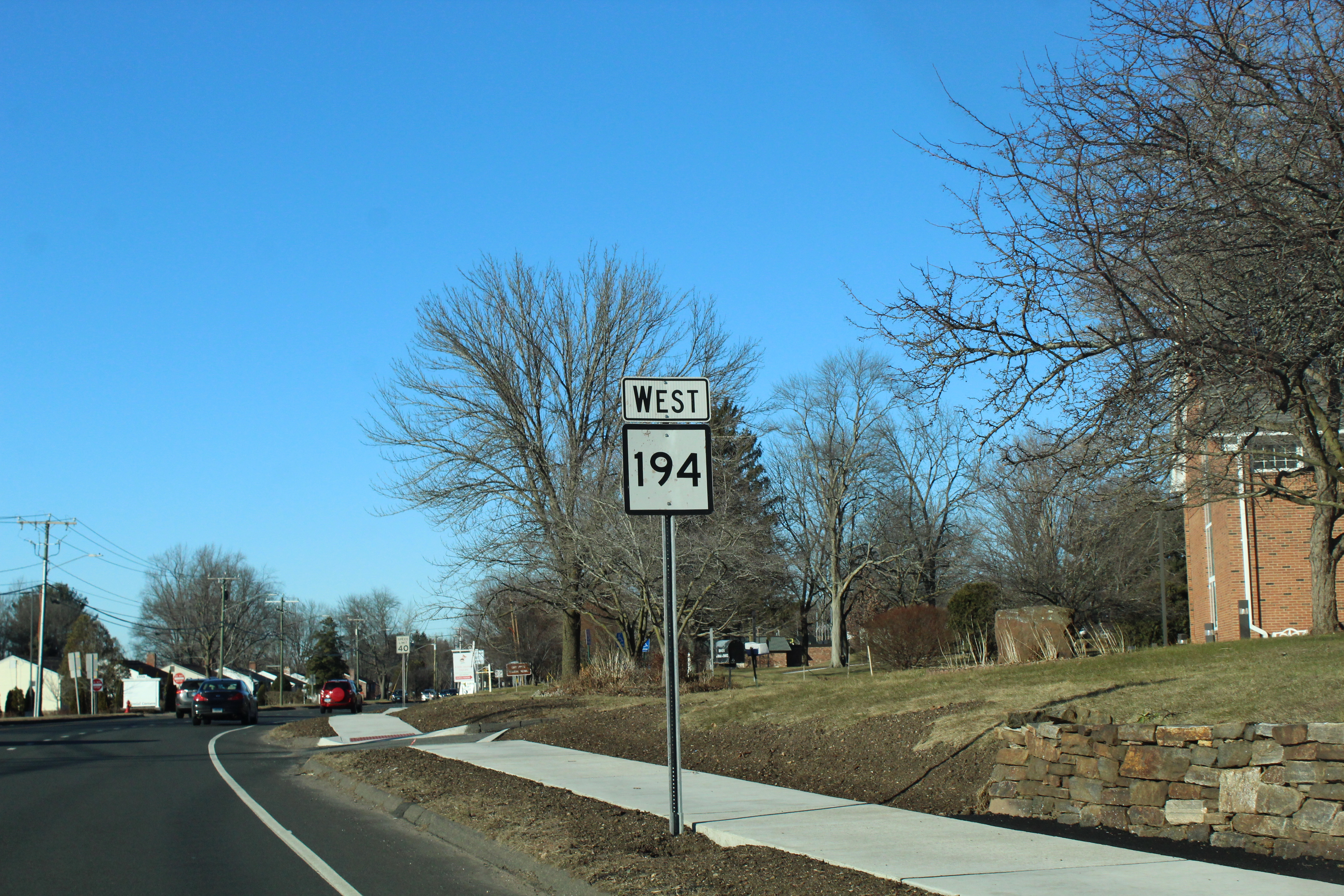 Connecticut State Route 194 westbound in South Windsor, Jan 2019